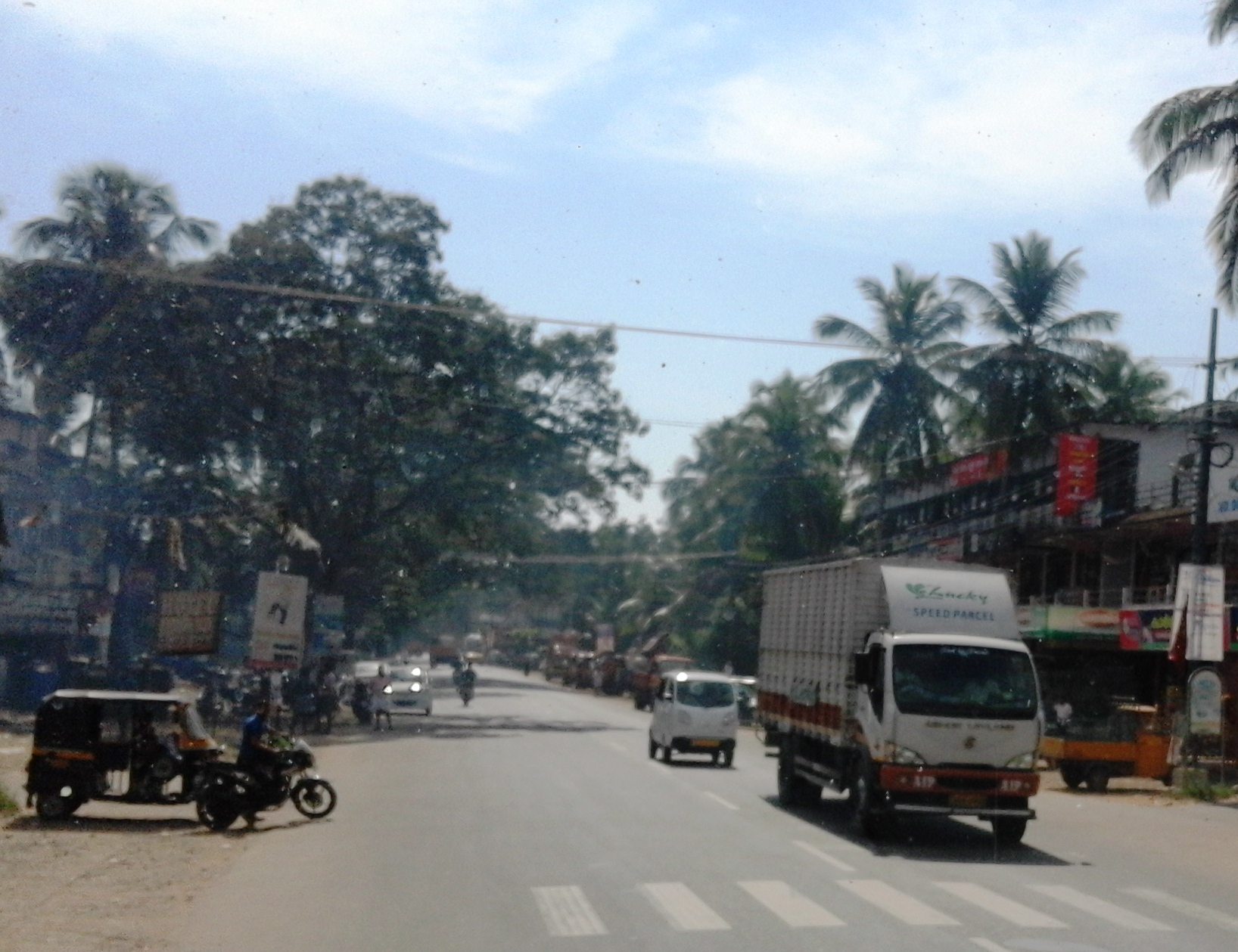 South Malabar Region, Kerala Province, India.